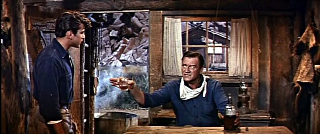 This image is a screenshot from a public domain trailer for the 1960 film, North to Alaska . Trailers for movies released before 1964 are in the Public Domain because they were never separately copyrighted.